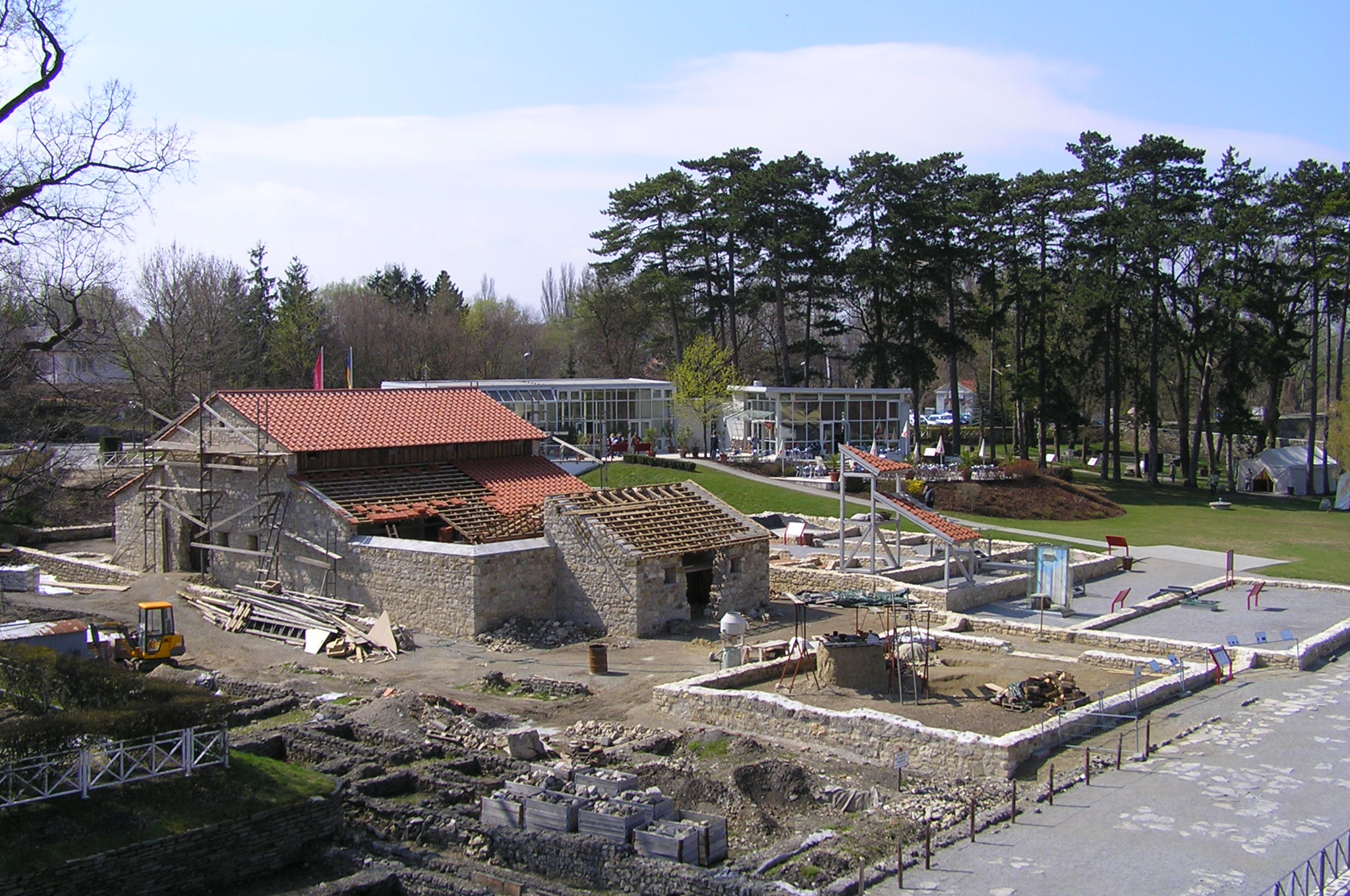 Carnuntum open-air museum at Petronell. The house depicted is "The House of Lucius", an ongoing project of original Roman house rebuilding.